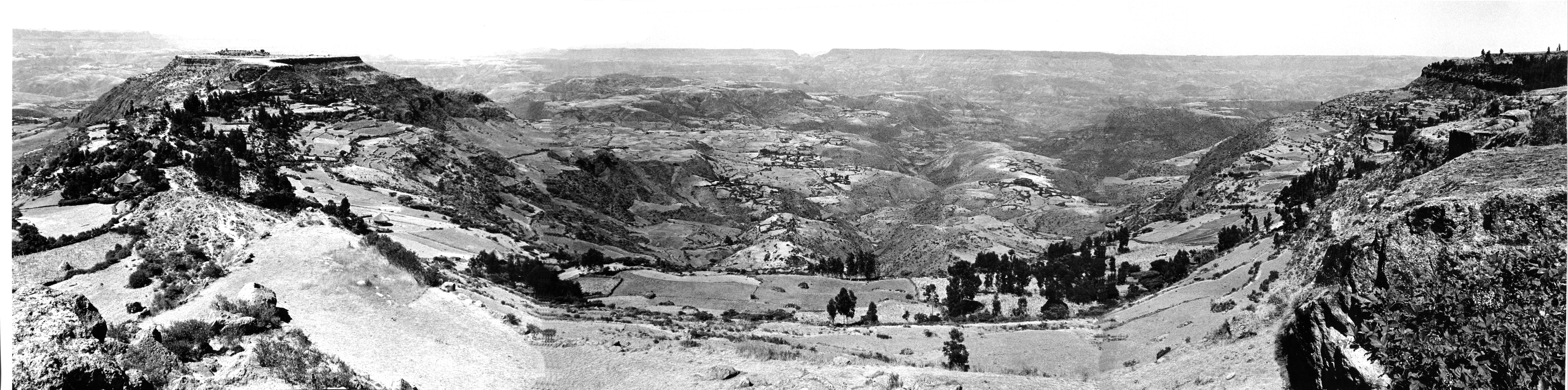 Composite image of Magdala Plateau landscape. Created by splicing my holiday photo's together and converting them to black and white to give effect of old style image.